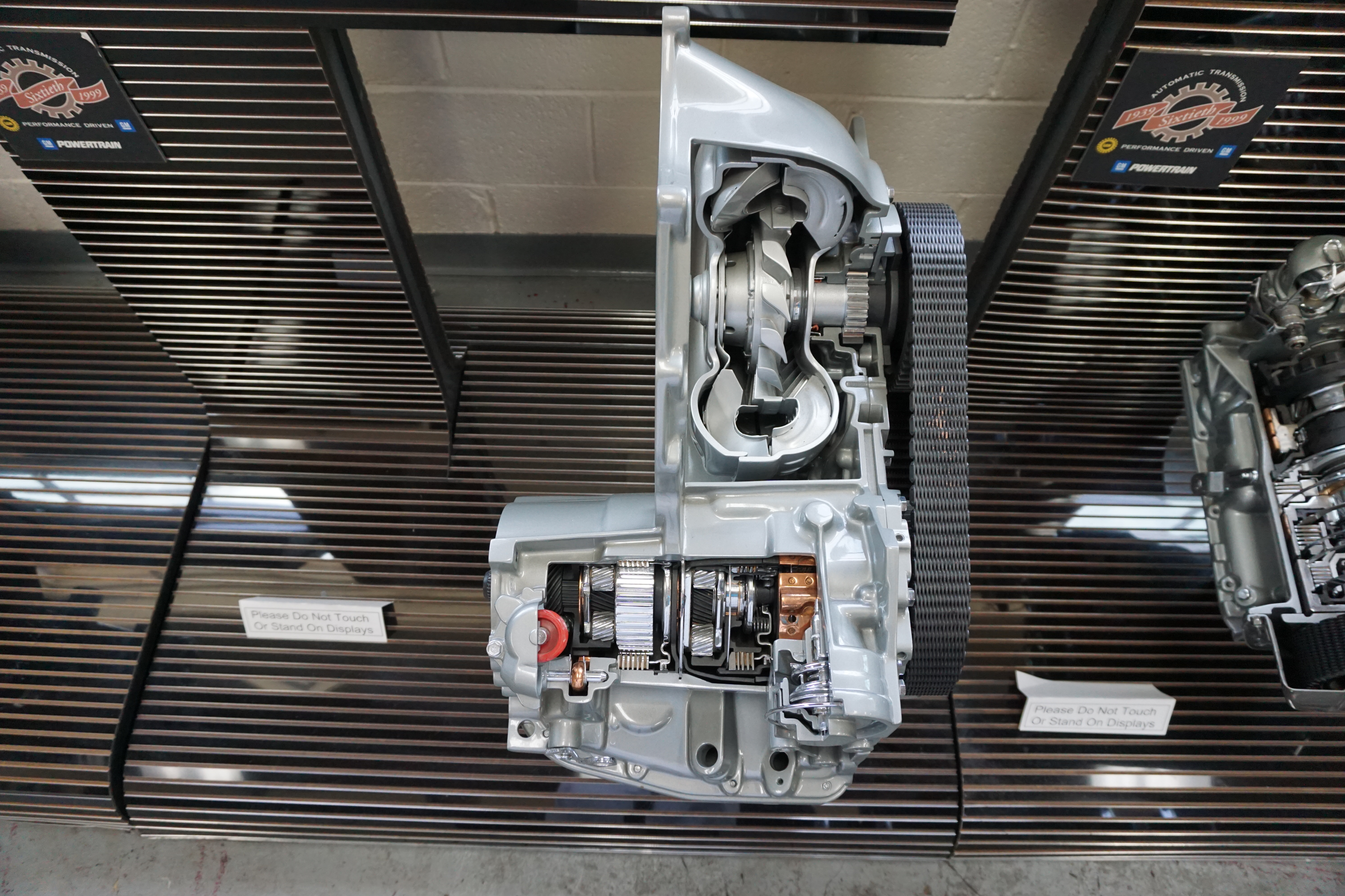 A 1978-85 THM 325 transmission at the Ypsilanti Automotive Heritage Museum in Ypsilanti, Michigan (United States).